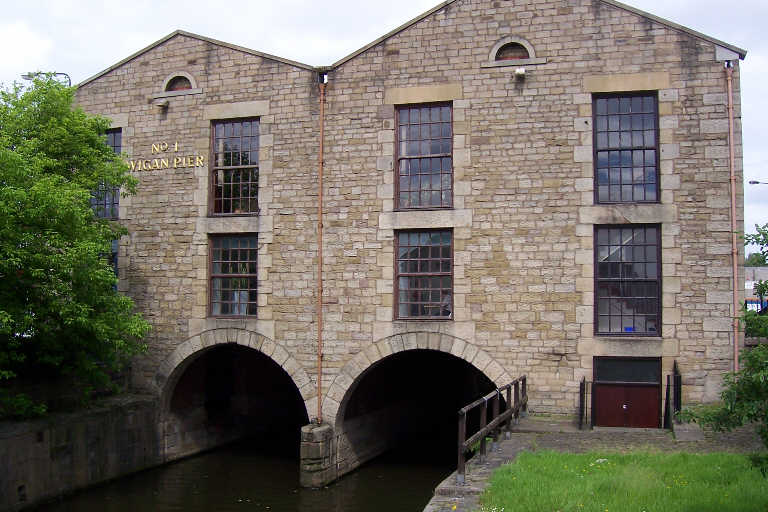 The original terminus of the canal in Wigan. It was completed in 1777 when the only connection to Wigan was the Douglas Navigation. The canal was extended from Parbold four years later.